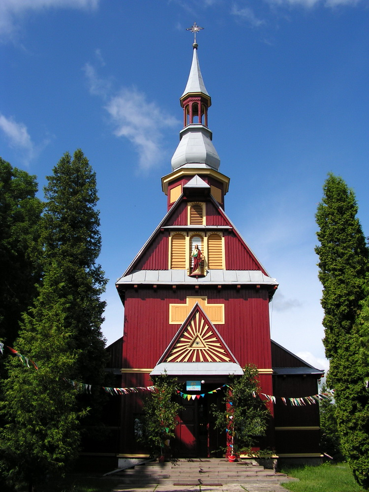 Catholic church of the Exaltation of the Holy Cross (Baranavičy, Belarus).